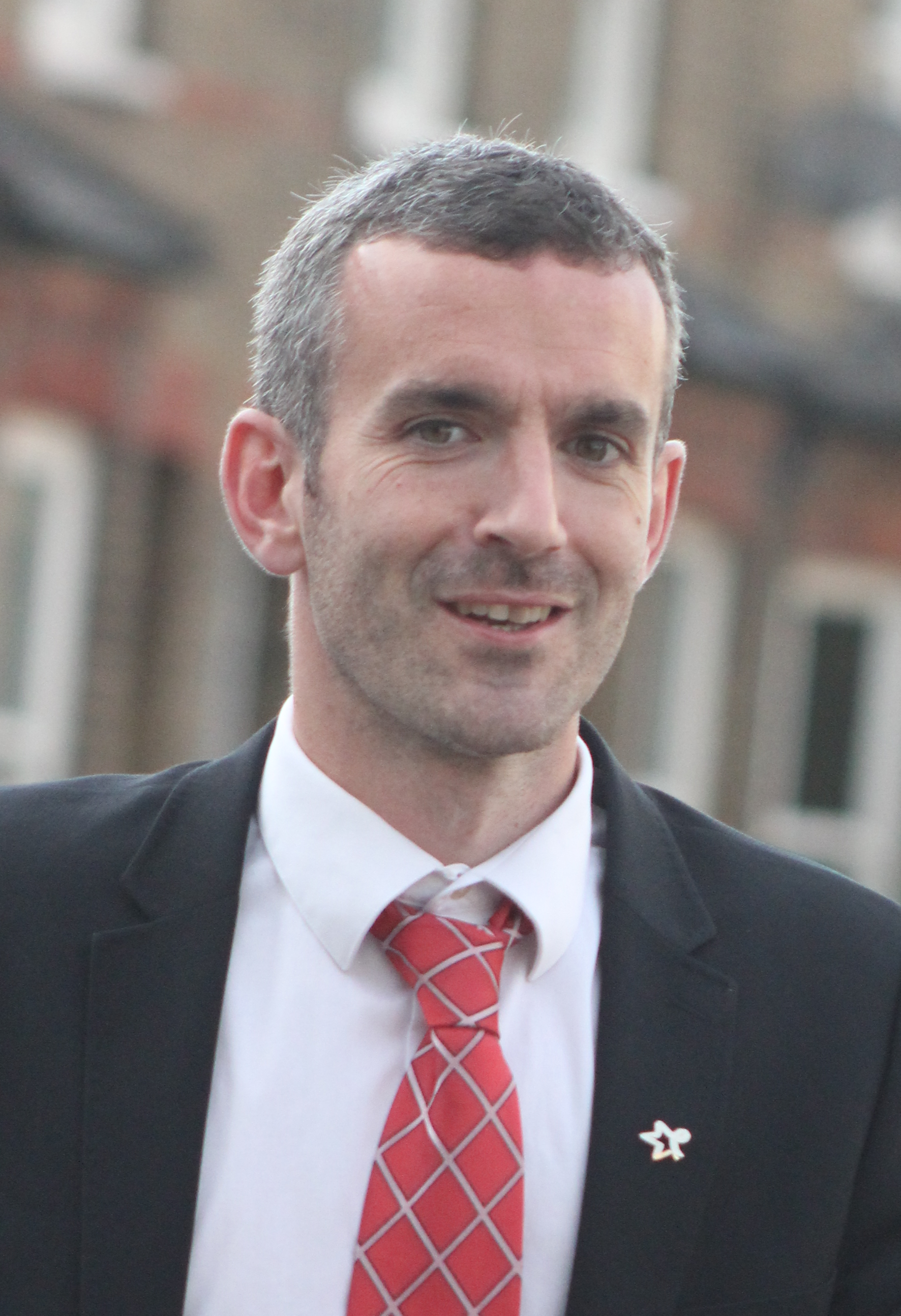 Kevin approached Bees supporters outside the Griffin